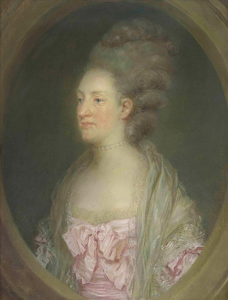 Portrait of Princess Louise of Denmark (1750–1831), Princess of Hesse-Kassel